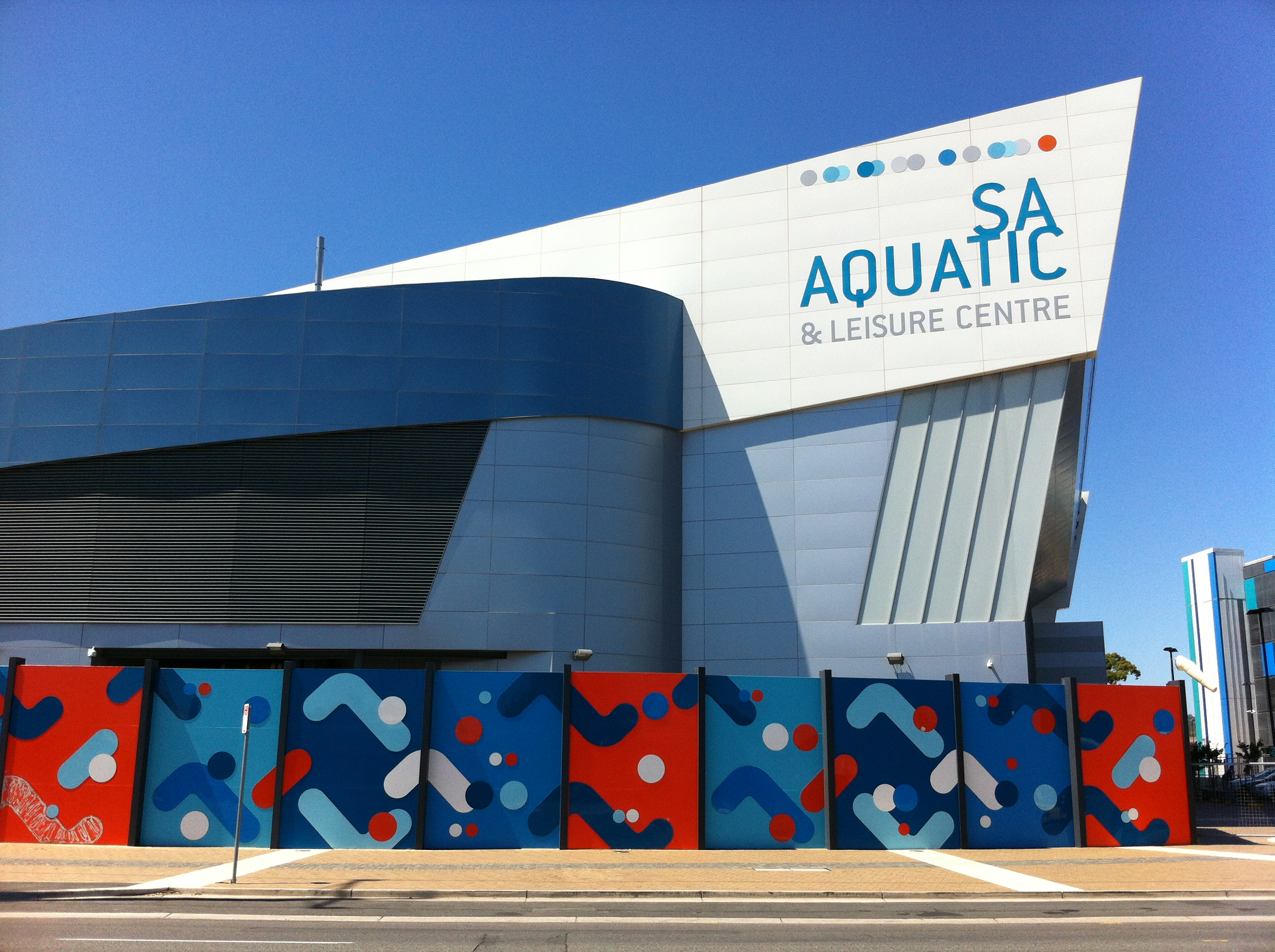 Photo of the exterior of the South Australia Aquatic and Leisure Centre